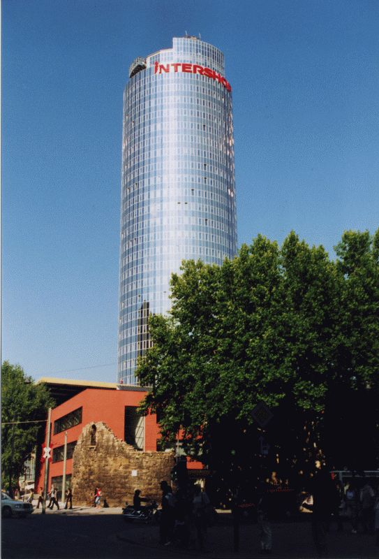 Intershop Tower in Jena.